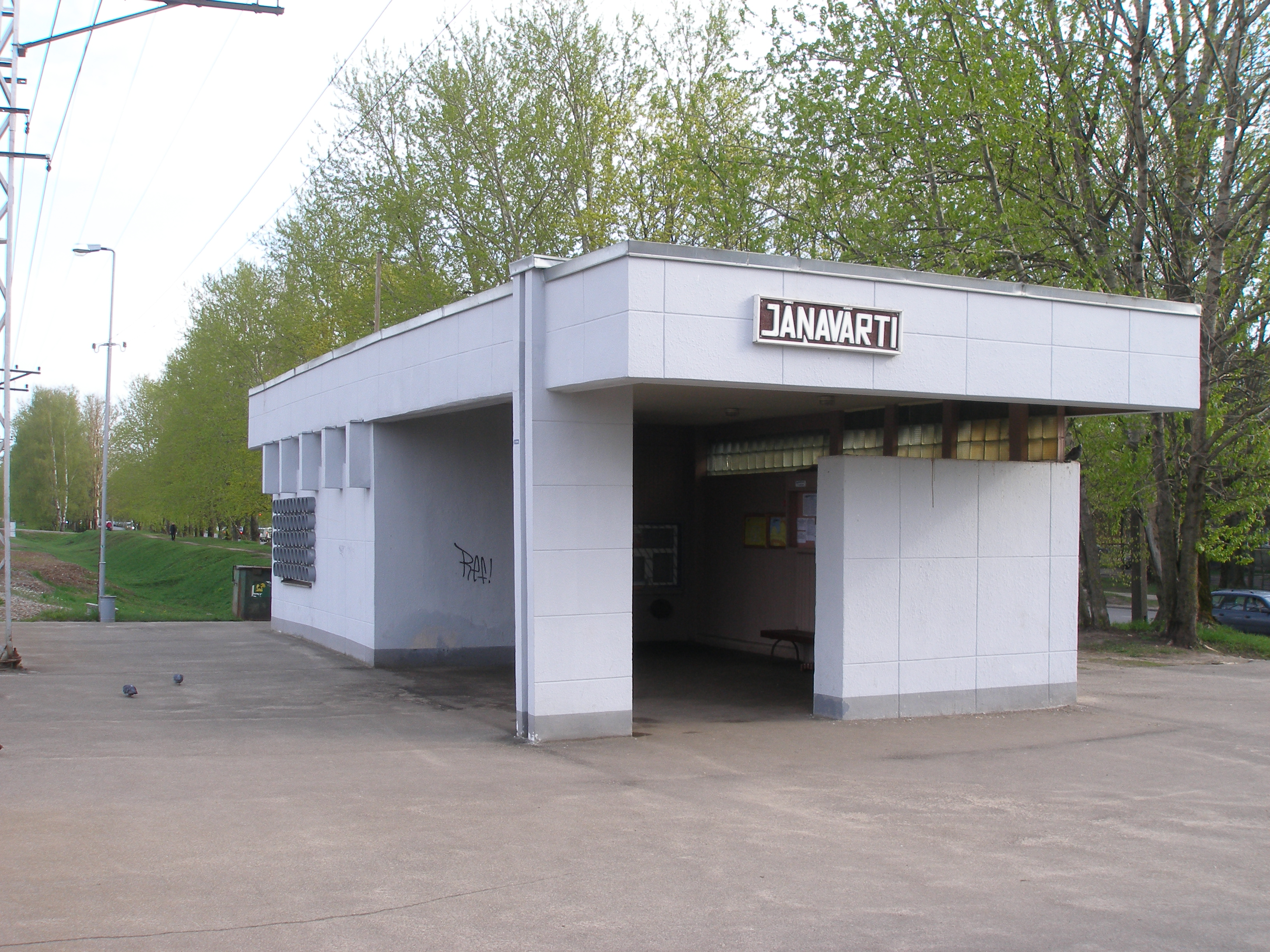 Passenger building of Jāņavārti StationLatviešu: Jāņavārtu stacijas pasažieru ēka.